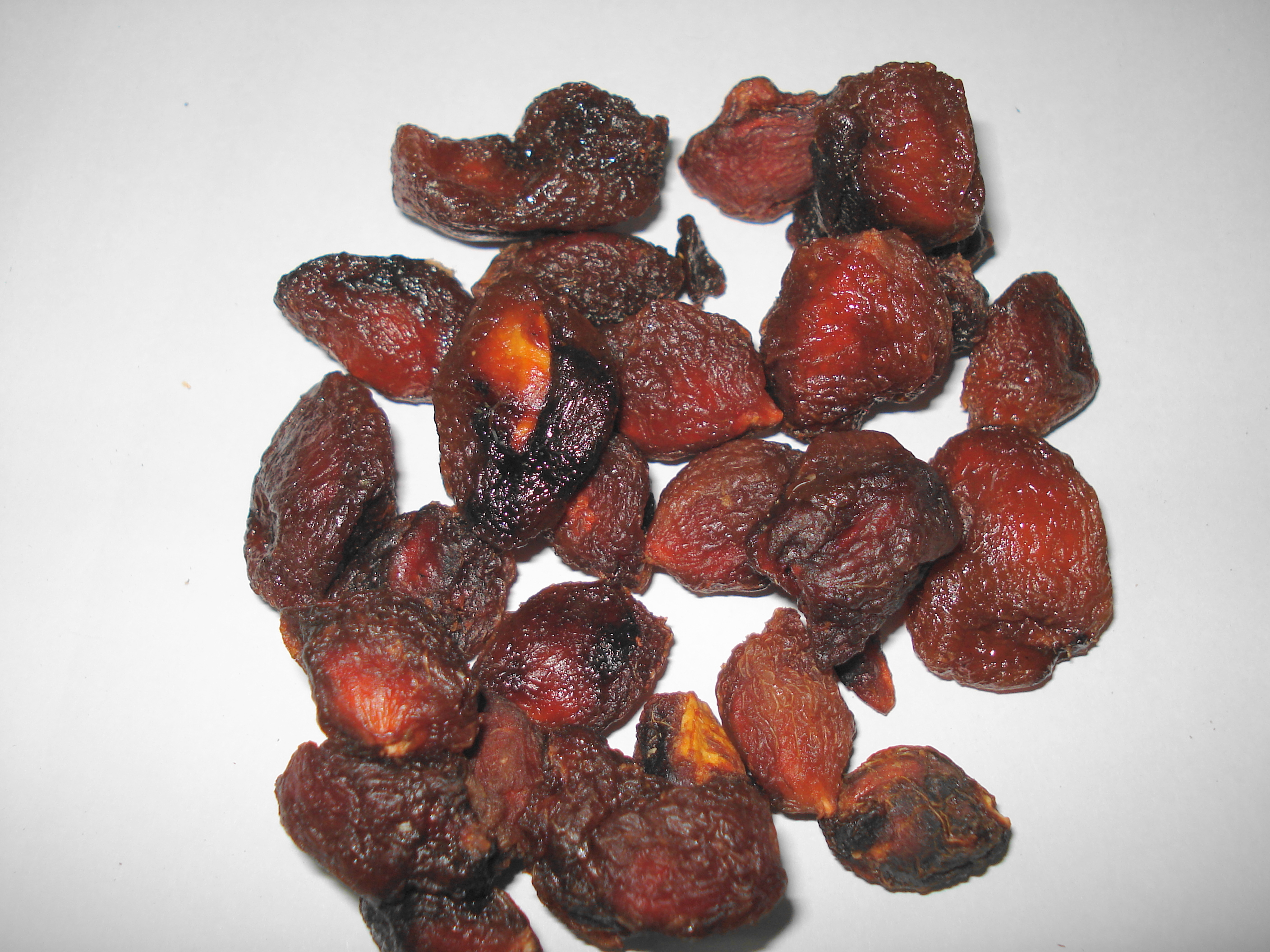 aaloo bukhara khushk